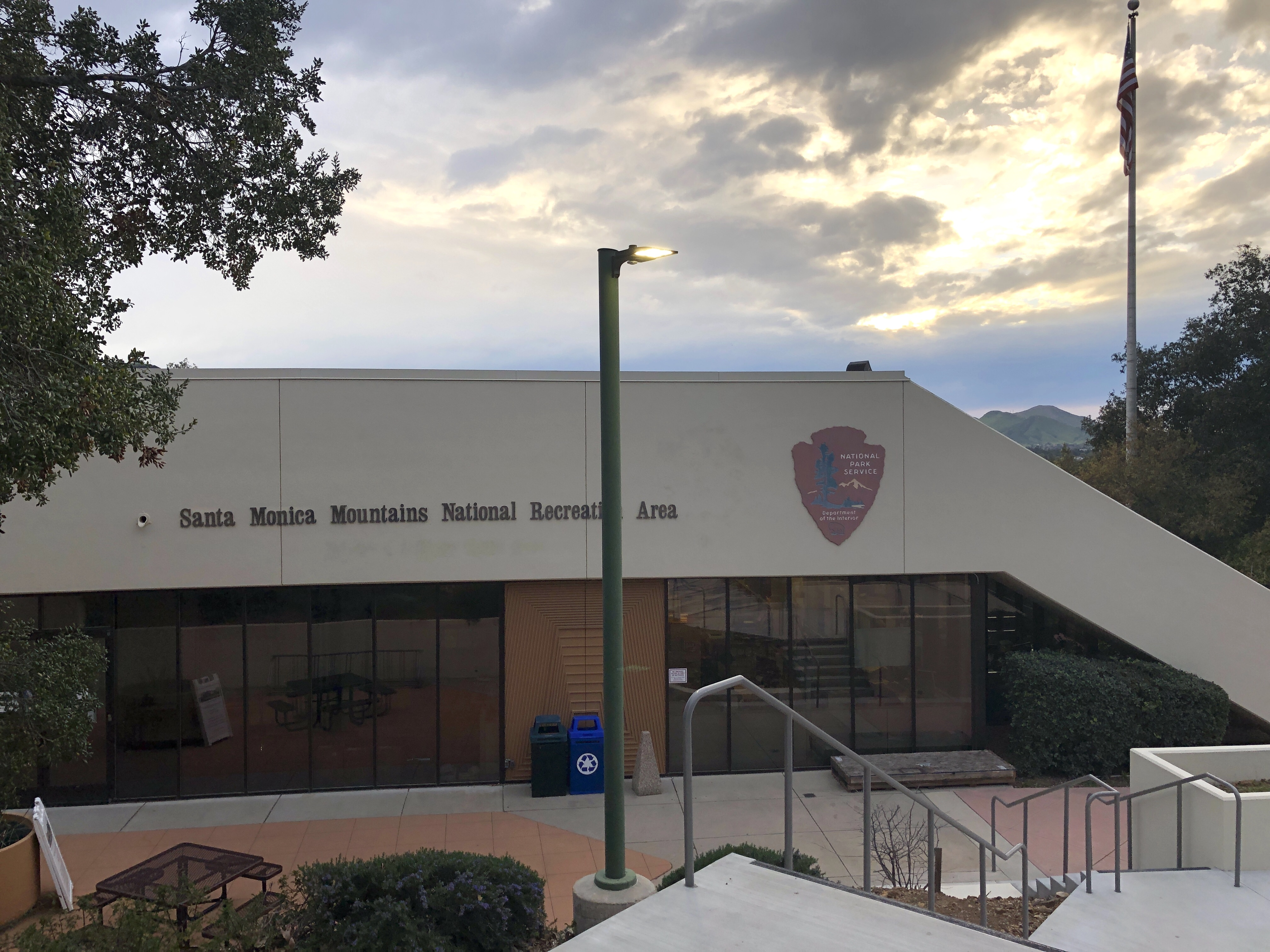 Headquarters for Santa Monica Mountains National Recreation Area (SMMNRA) in Thousand Oaks, California